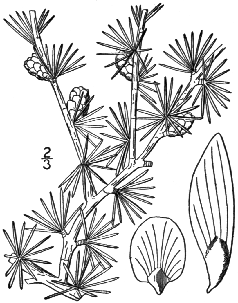 Fig. 142. Larix laricina from the second edition of An Illustrated Flora of the Northern United States, Canada and the British Possessions (New York, 1913)